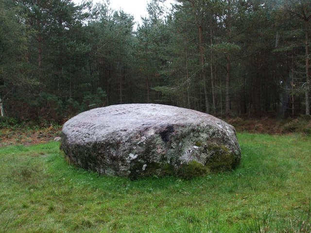 Cumberland's Stone It was from this vantage point half a mile in the rear of the government army of the Hanoverian King George II that it is believed the Duke of Cumberland viewed the battle of Culloden. The trees now screening the view are a recent planting.